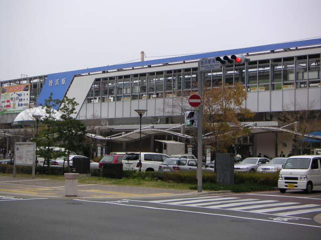 Meinohama Station south gate.